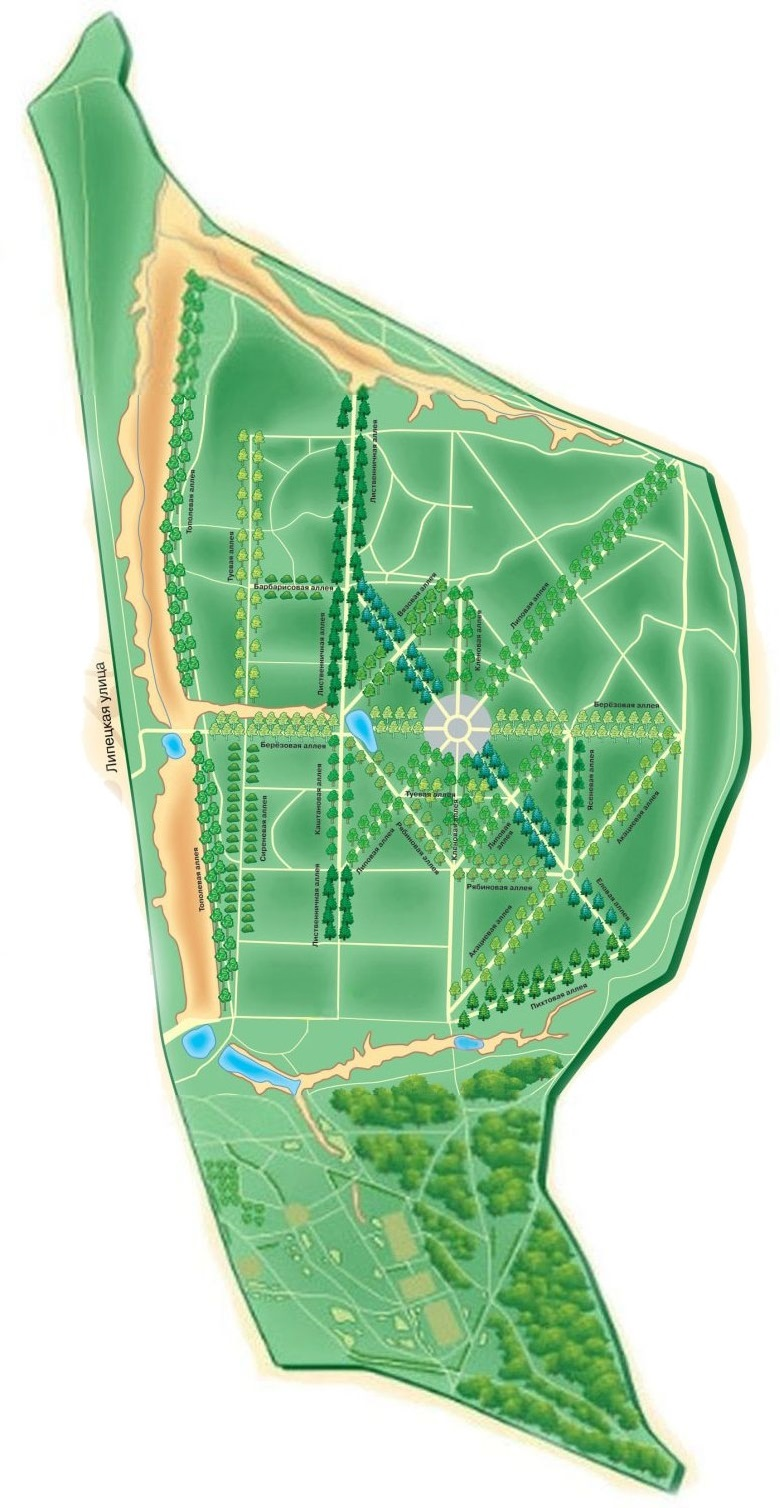 Biryulyovskiy park map (scheme)